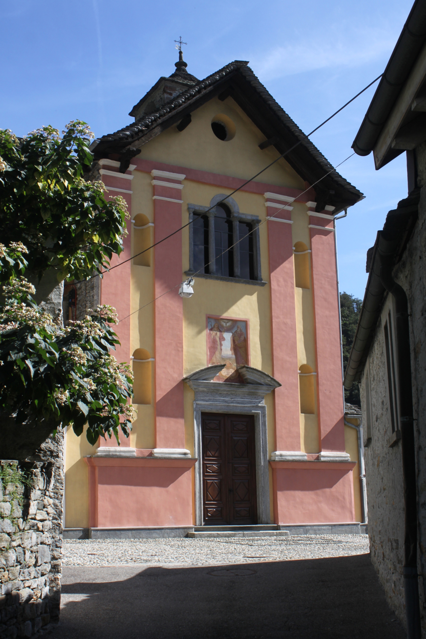 SS. Giacomo e Filippo church in Gordevio.